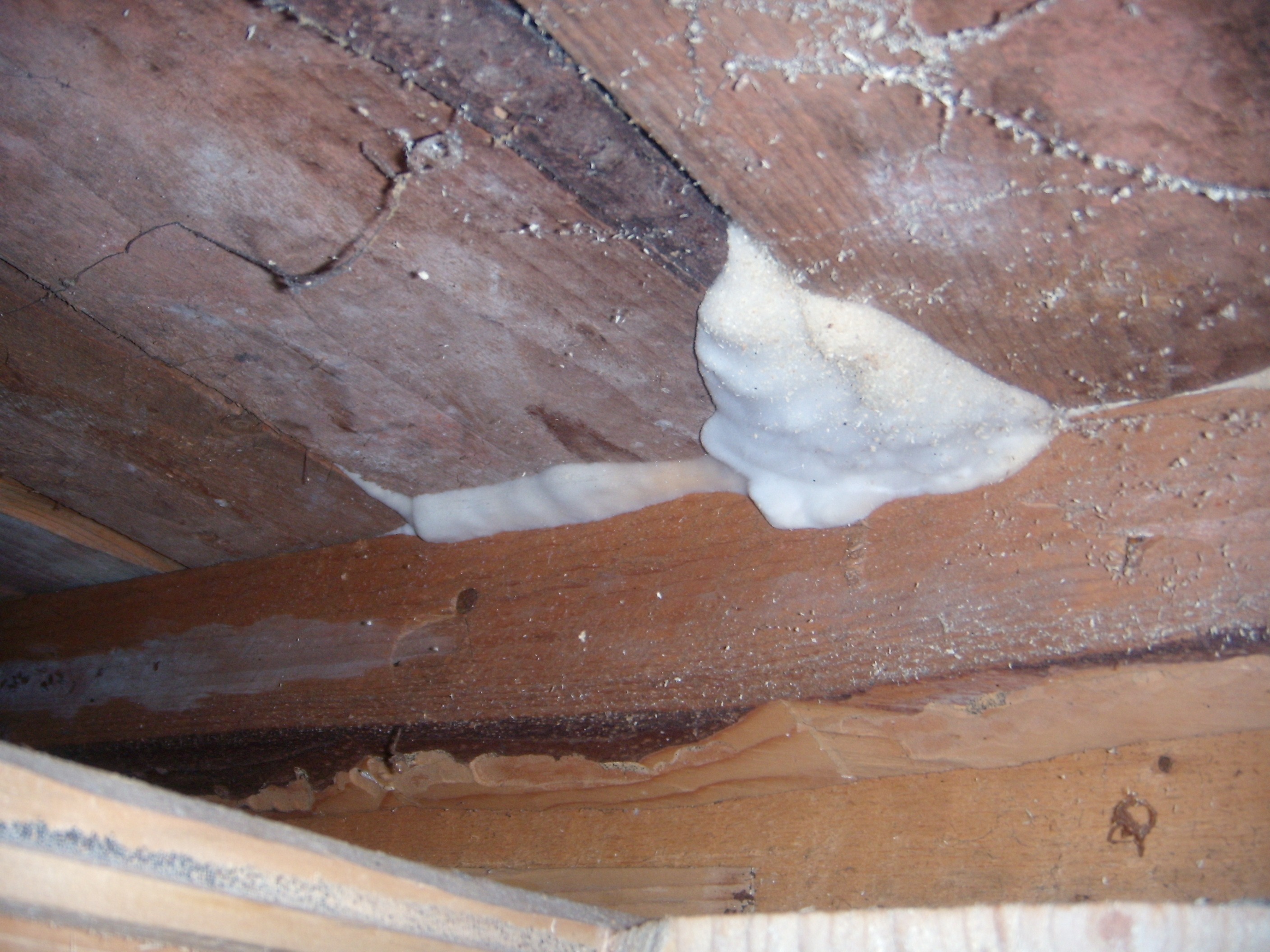 Serpula lacrymans